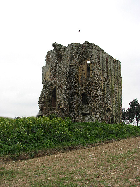 Broomholm Priory